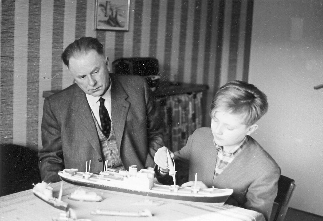 Paper models of ships, built with „Wilhelmshavener Modellbaubögen“